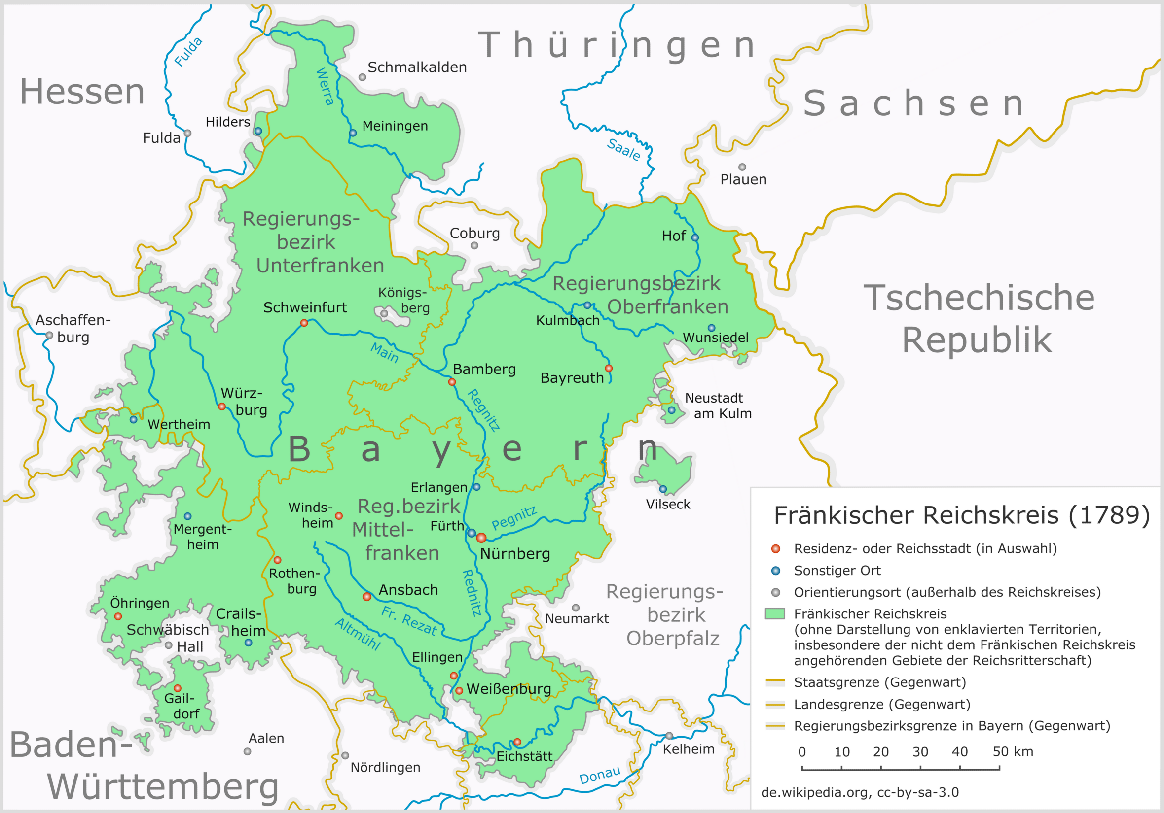 The Imperial circle of Franconia, with the current names of provinces and districts